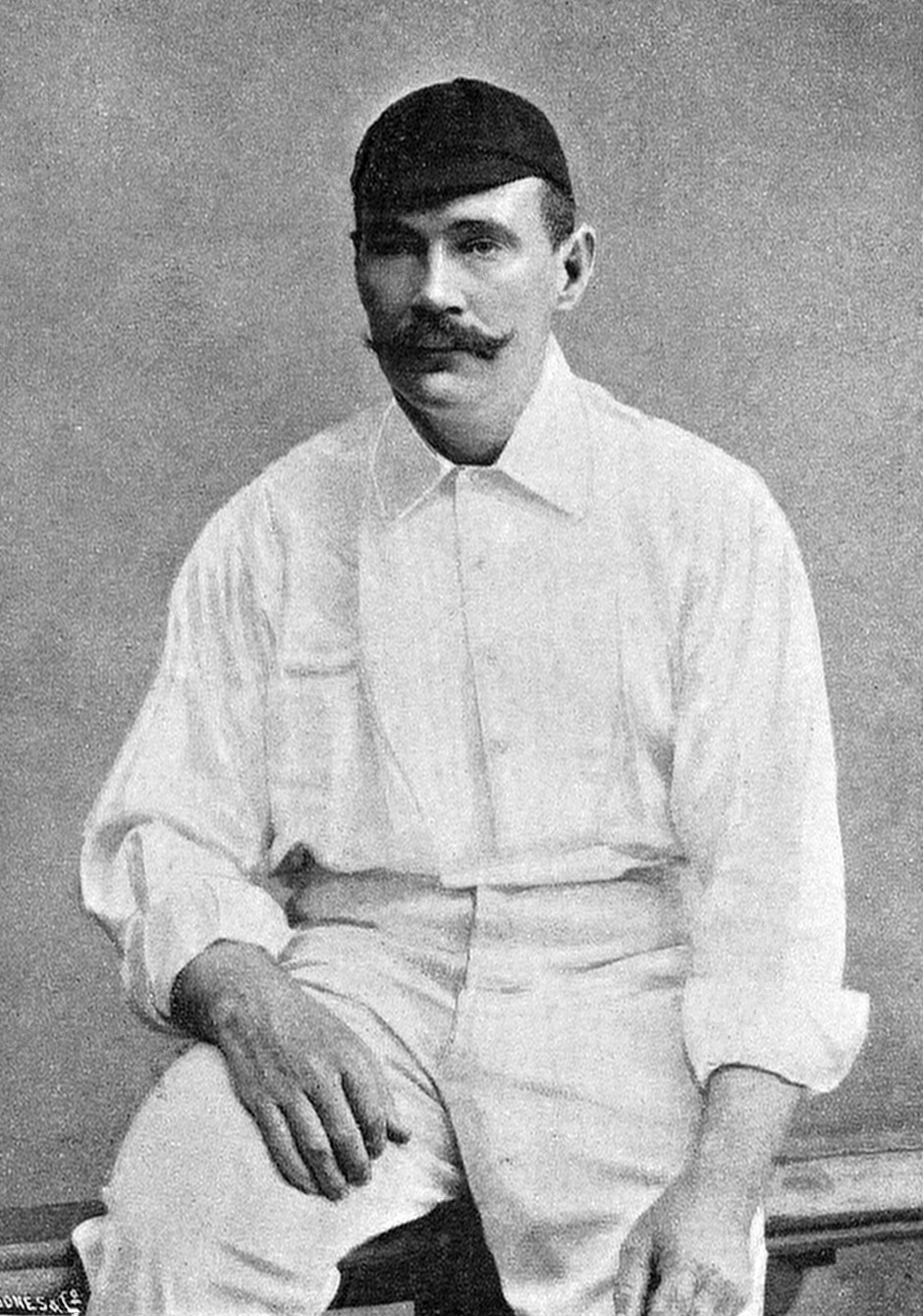 Scan of cricketer Jim Phillips